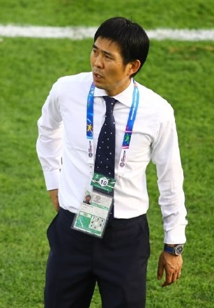 Hajime Moriyasu